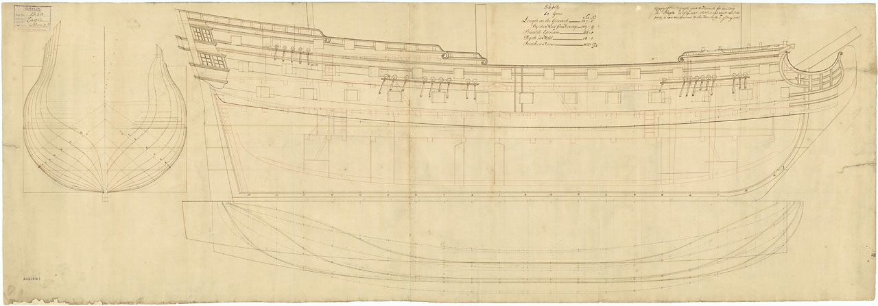 Eagle (1745) Scale: 1:48. Plan showing the body plans, sheer lines with inboard detail, and longitudinal half-breadth for Eagle (1745), a 60-gun Fourth Rate, two-decker. Alterations to the plan were made to the waterlines on the body plan and half-breadth and to the gun ports on the sheer lines. These were made on 1 May 1745 and were described as a 'new design' but seem to have been incorporated into the ship's design when compared to ZAZ1682. EAGLE 1745